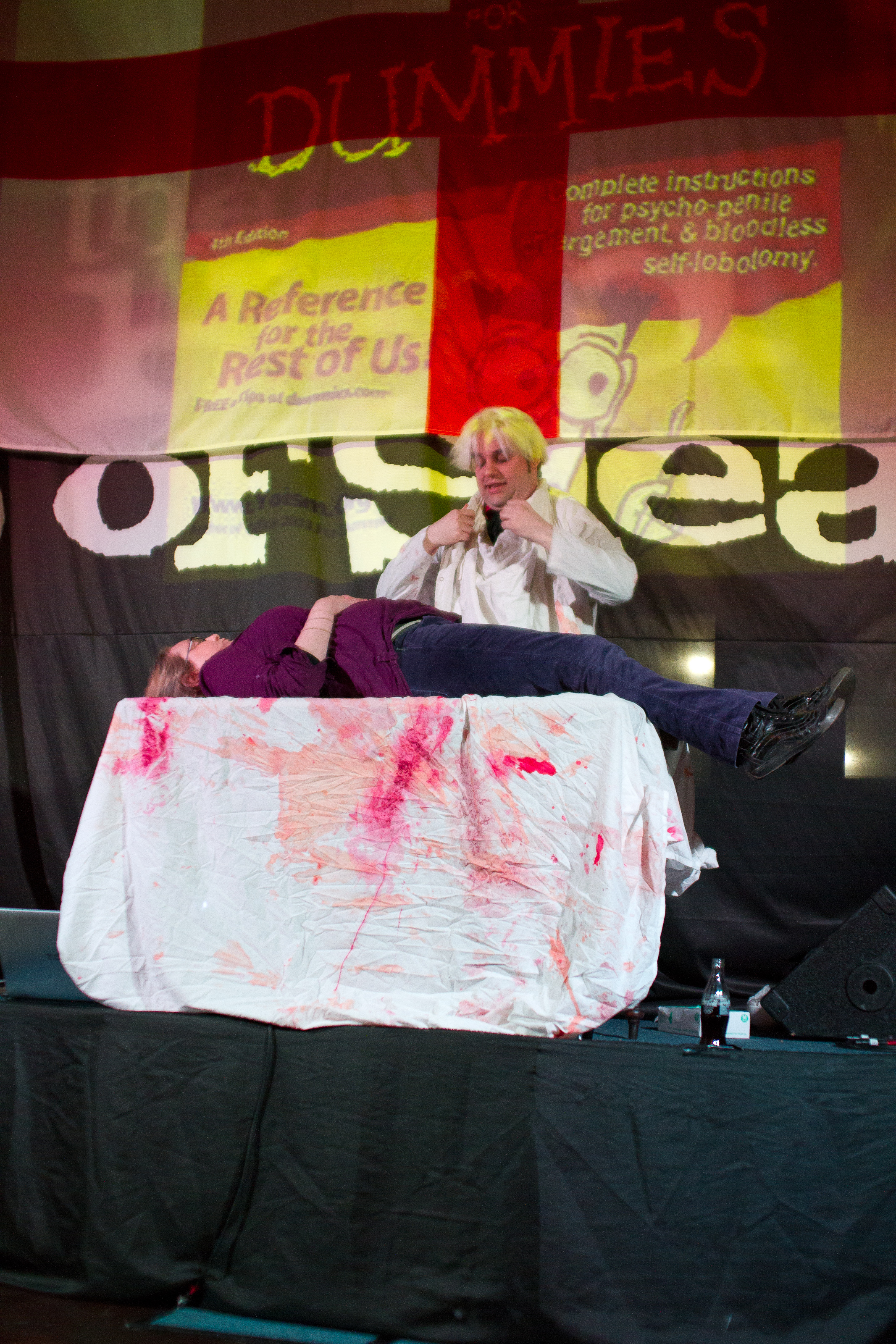 Ash Pryce demonstrating psychic surgery during his 'How to be a Psychic Conman' talk to the Merseyside Skeptics Society